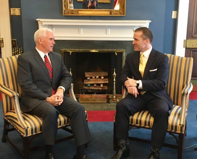 Welcomed my good friend Governor @EricGreitens to the White House today. He is doing a great job for the people of Missouri.